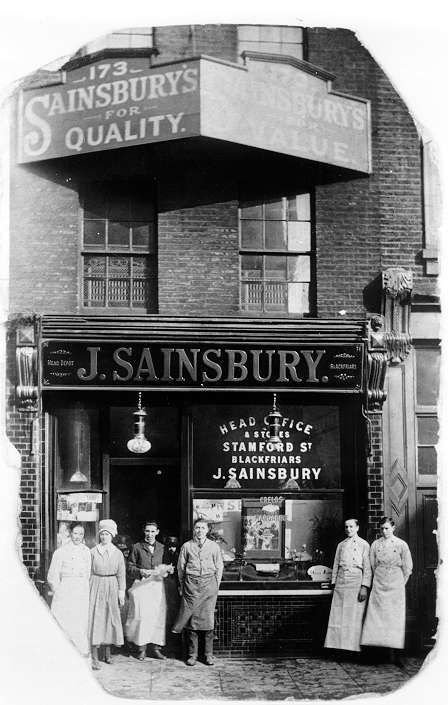 Sainsbury's first store: 173 Drury Lane, Covent Garden. Taken by unknown photographer c. 1919. Photo held ay Sainsbury's Archives